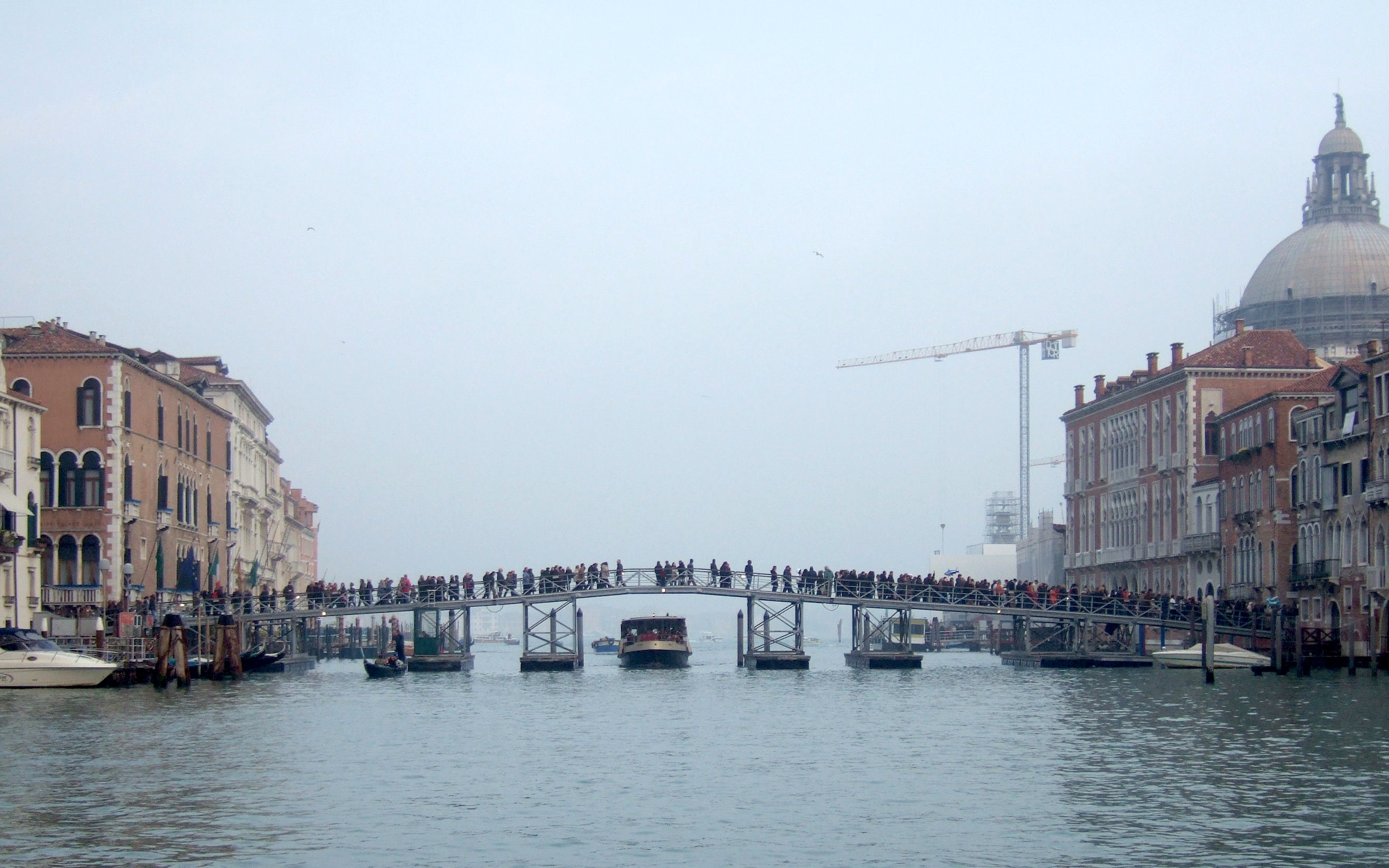 Salute Bridge on 2008-11-21